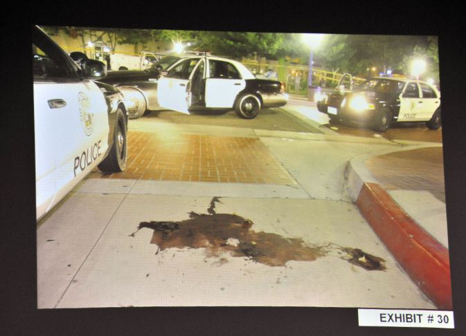 Kelly Thomas murder trial exhibit photo of the crime scene showing the victim's pool of blood. Other information A crime scene investigator's photograph gives some insight into what the scene looked like in the immediate aftermath of an altercation between Kelly Thomas, a homeless man in Fullerton, and police officers on July 5, 2011